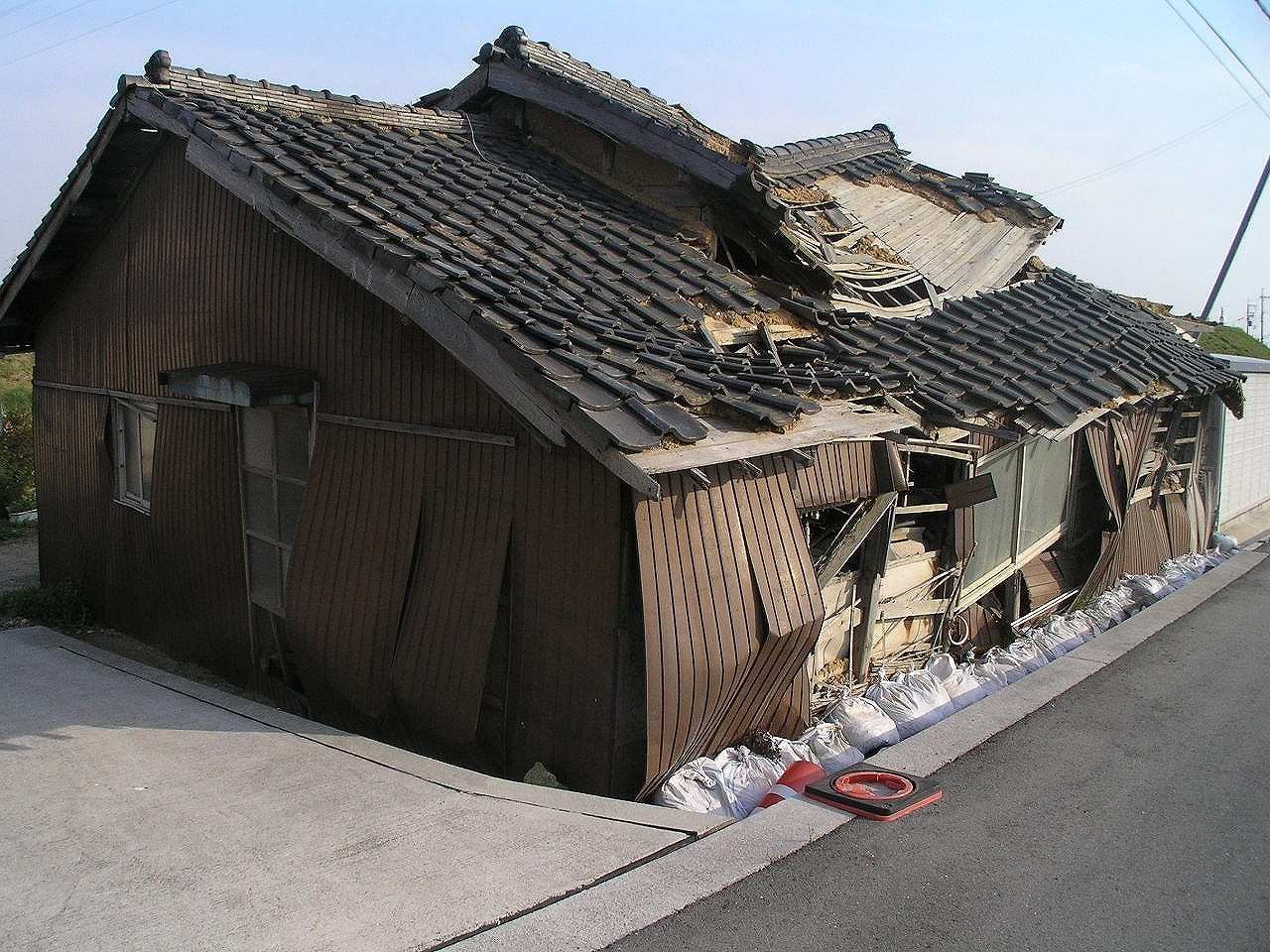 Deserted house 4268683 加古大池付近の廃屋加古川市